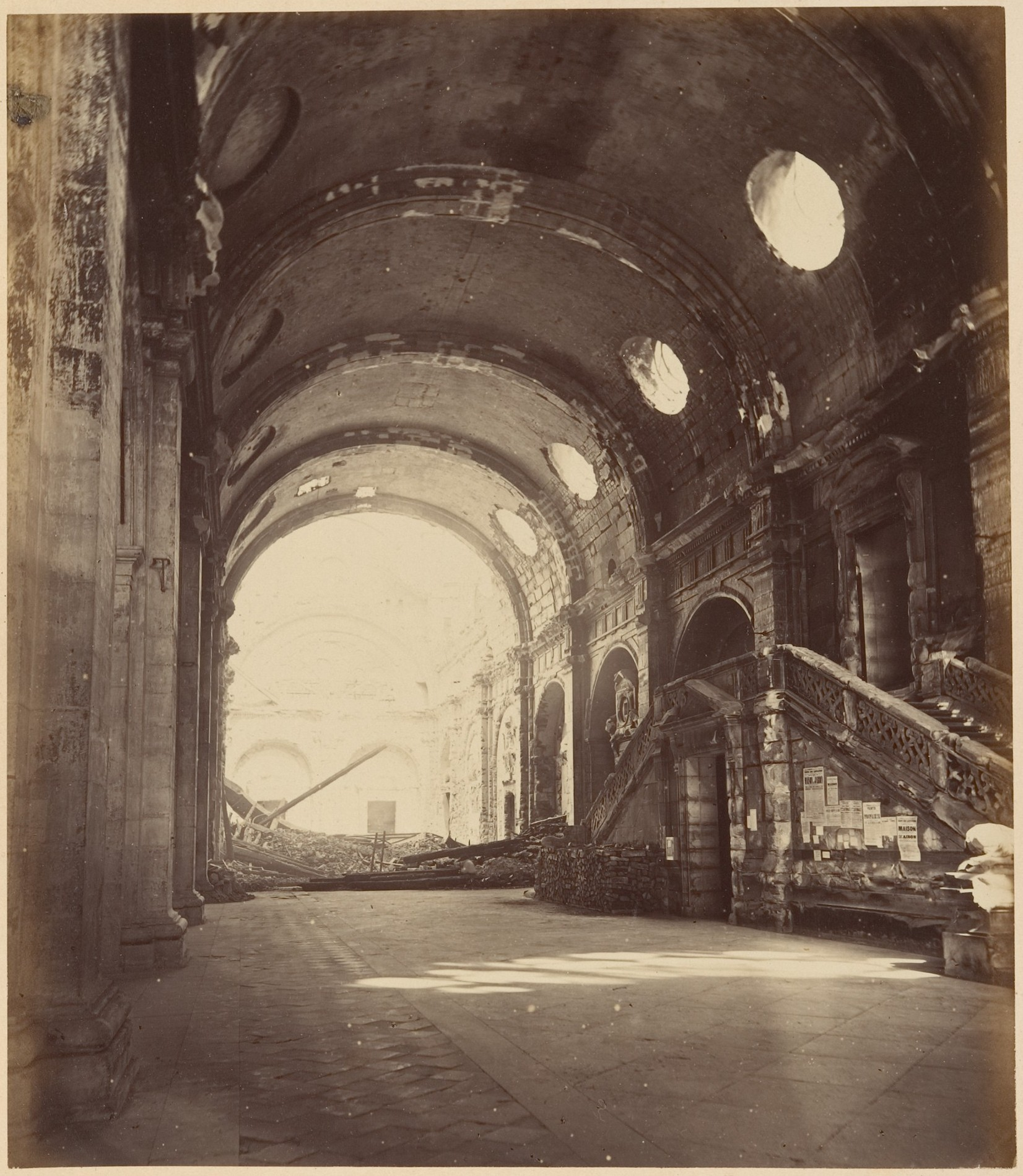 Les Ruines de Paris et de ses Environs 1870-1871: Cent Photographies: Premier Volume. Par A. Liébert, text par Alfred d'Aunay. Author: Alfred d'Aunay (French) Date: 1870–71 Medium: Albumen silver prints from glass negatives Dimensions: Images approx.: 19 x 25 cm (7 1/2 x 9 13/16 in.), or the reverse Mounts: 32.8 x 41.3 cm (12 15/16 x 16 1/4 in.), or the reverse Classification: Albums Credit Line: Joyce F. Menschel Photography Library Fund, 2007 Accession Number: 2007.454.1.1–.33